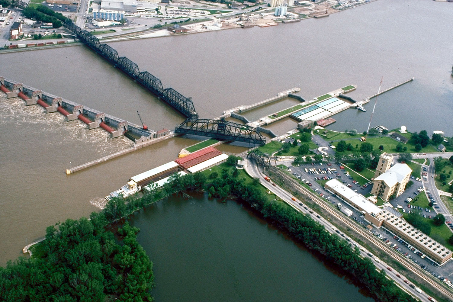 Aerial view of Lock and Dam No. 15 on the Mississippi River between Rock Island, Illinois and Davenport, Iowa. View is from the Illinois side of the river looking northwest to Iowa. The Government Bridge, a combined auto and railroad bridge, spans the river right over the locks, necessitating a turntable drawbridge to clear the locks. Rock Island District Office is also located here.Location: Rock Island, Illinois, 41°31′07″N 90°34′08″W / 41.51861°N 90.56889°W